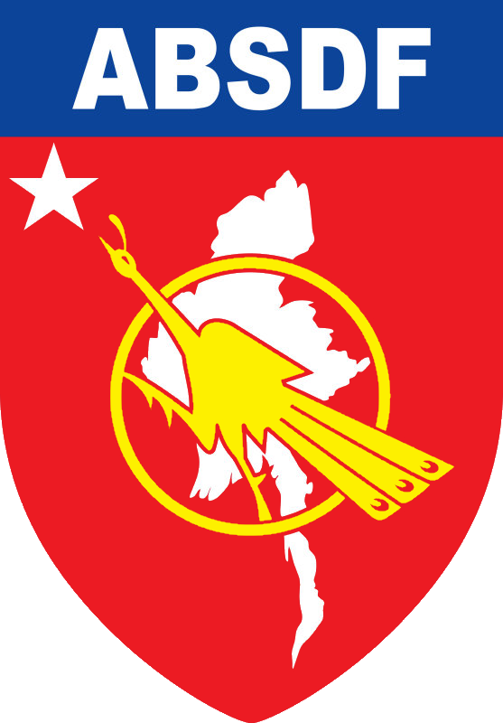 Insignia of the All Burma Students' Democratic Front.